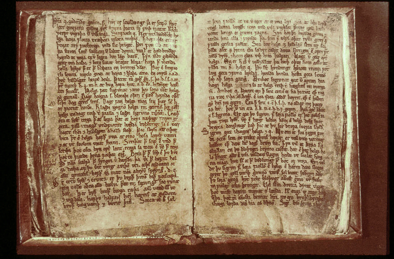 Codex Regius (The King's book) of Eddaic Poems.